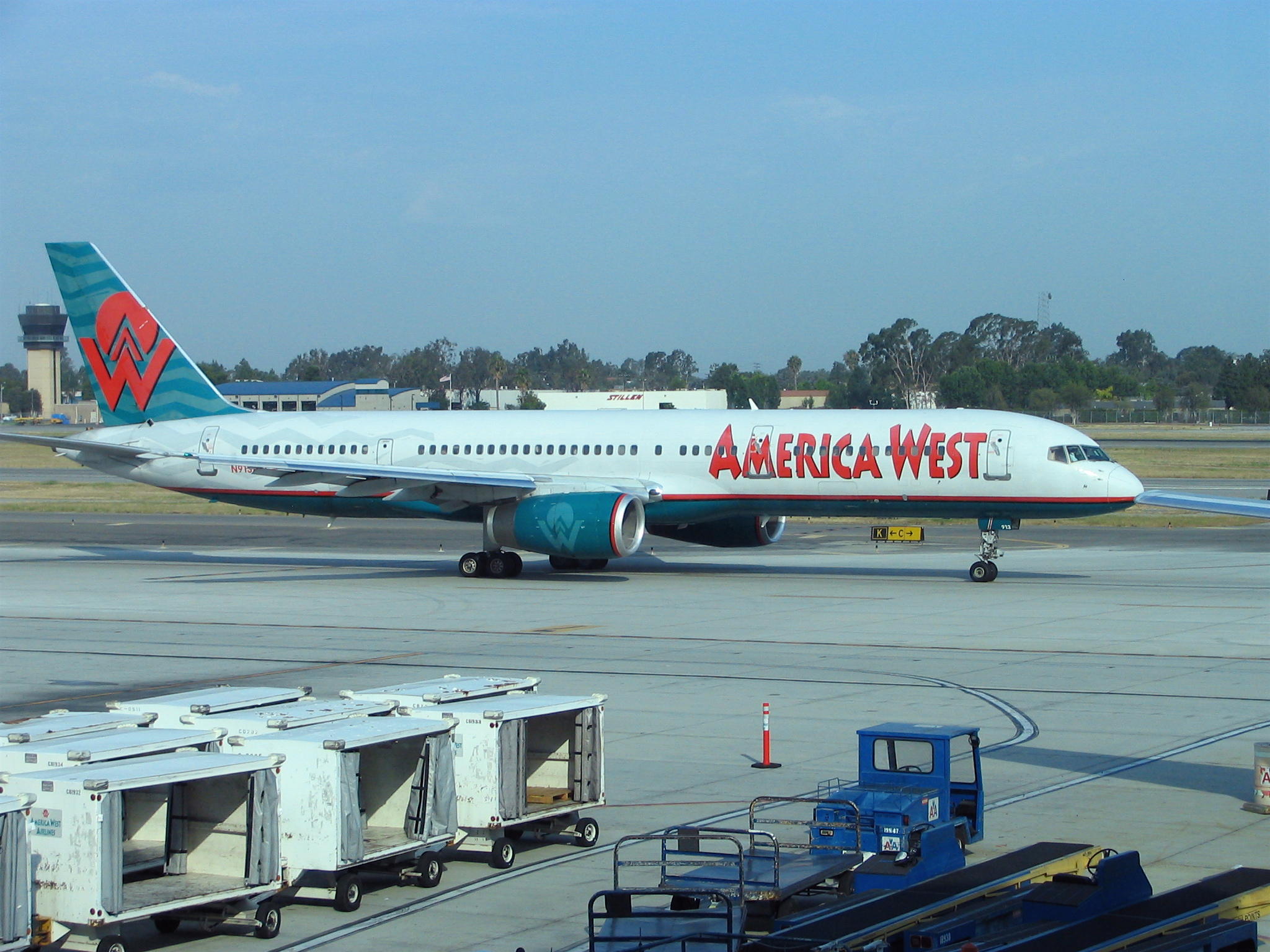 A Boeing 757-200 of America West Airlines